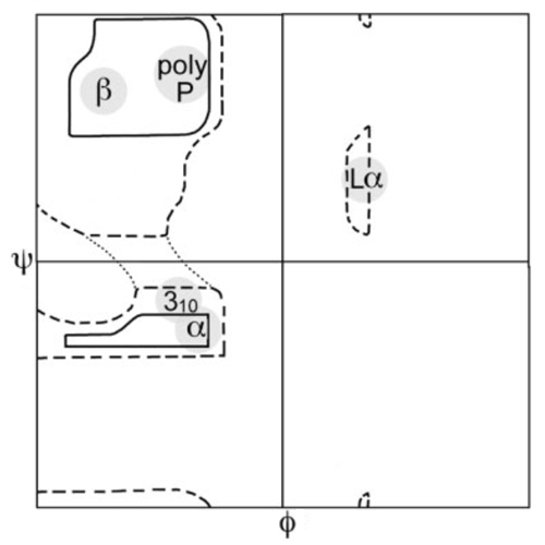 Original outlines in φ,ψ space proposed by G.N. Ramachandran in 1963. Solid lines enclose region allowed by hard-sphere bumps at standard radii; dashed lines show region allowed with reduced radii; dotted lines add region allowed when the tau angle (N-Calpha-C) is relaxed slightly. (Note that Ramachandran called the angles φ and φ', and that he put 0°,0° in the lower left corner rather than in the center as here - standard now since 1970.) Labels show the approximate location of common structural features such as α or 3-10 helix.